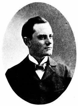 Portrait of George F. Argetsinger, King of the Hamilton Chapter, No. 62, Royal Arch Masonry, of Rochester NY